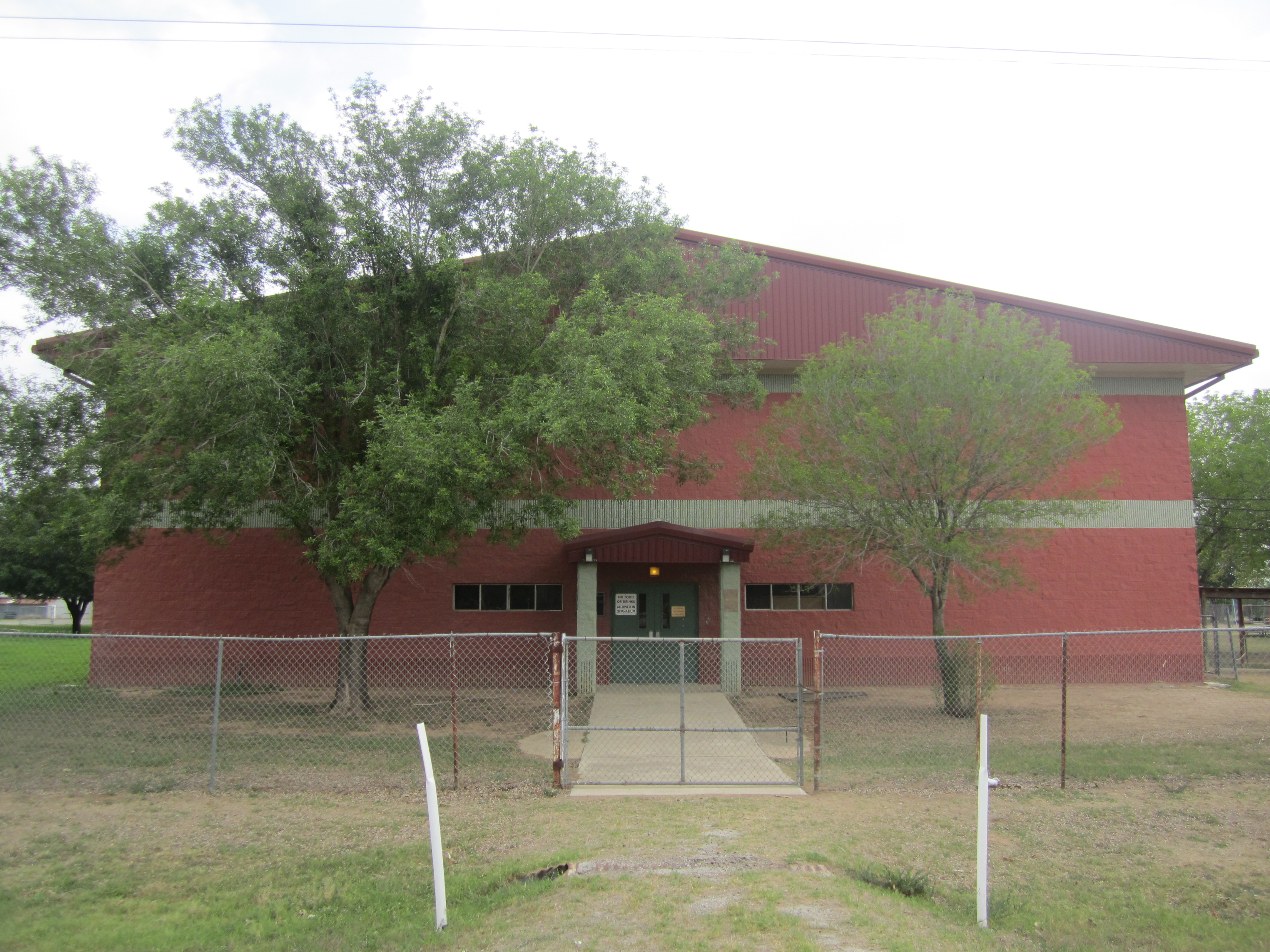 I took photo with Canon camera in Batesville, TX.